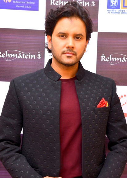 Javed Ali graces musical concert ‘Rehmatein-3’.